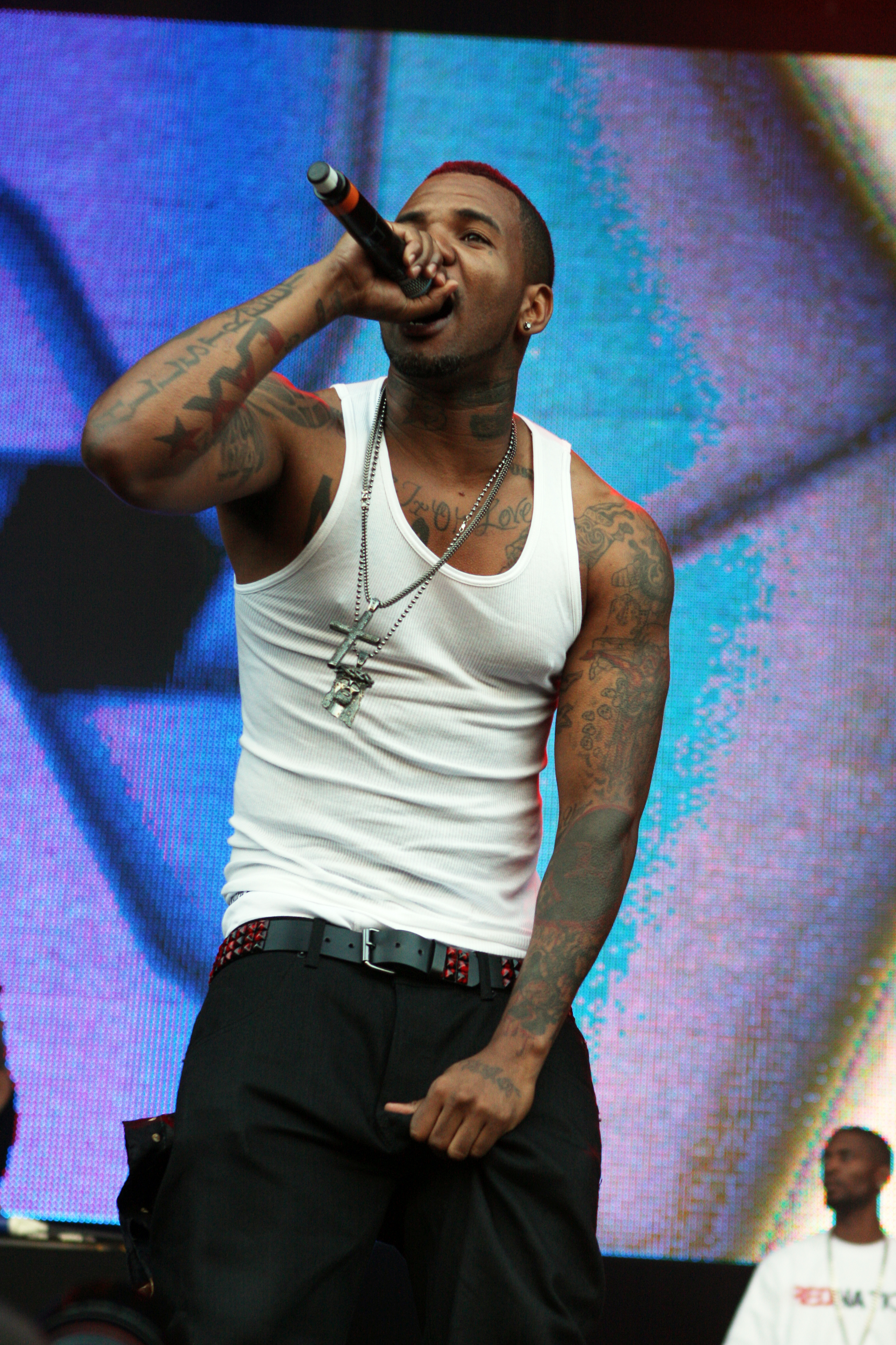 The Game Supafest Eva Rinaldi Photography